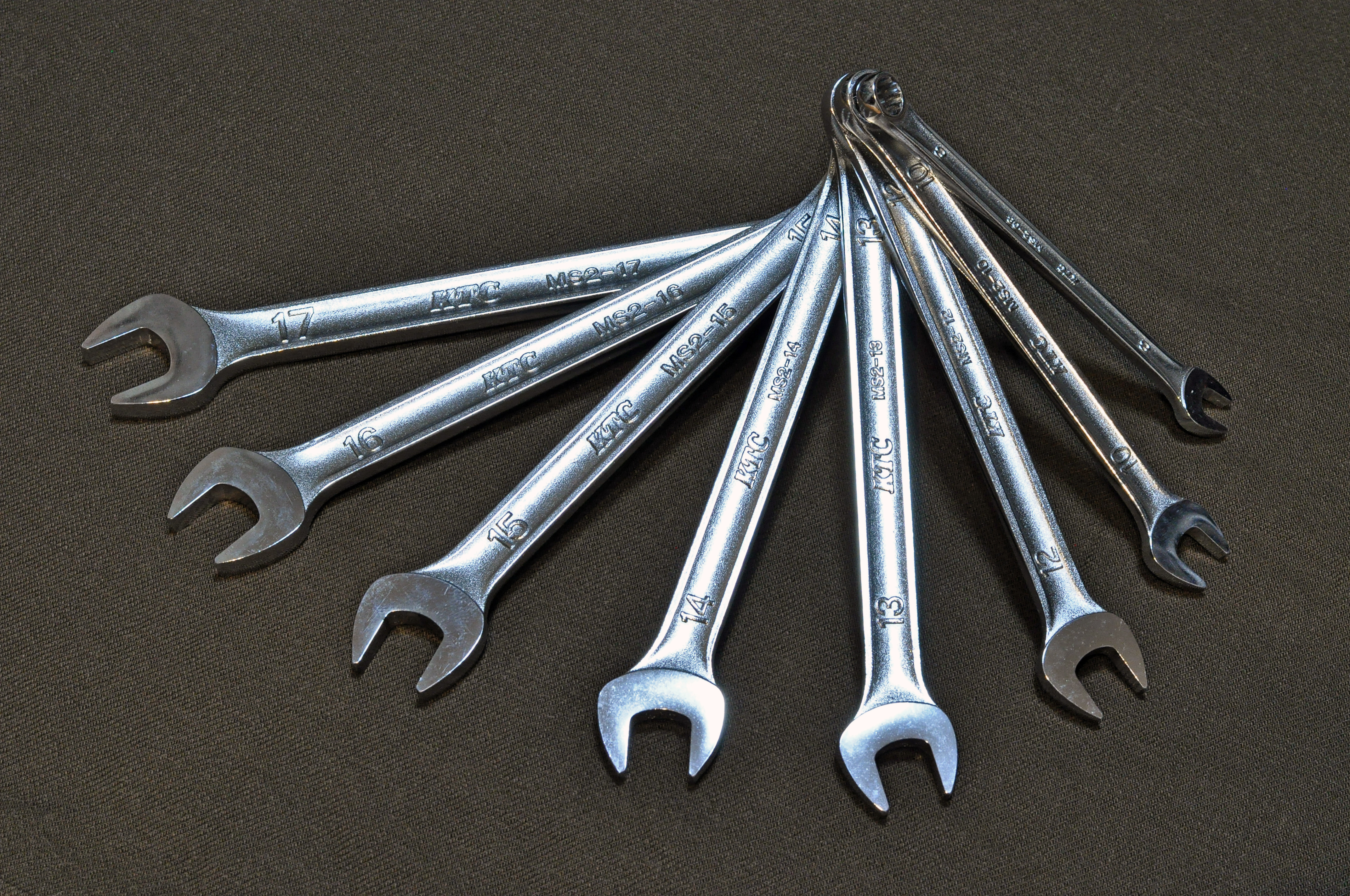 Combination wrenches. 17, 16, 15, 14, 13, 12, 10 and 8 mm width